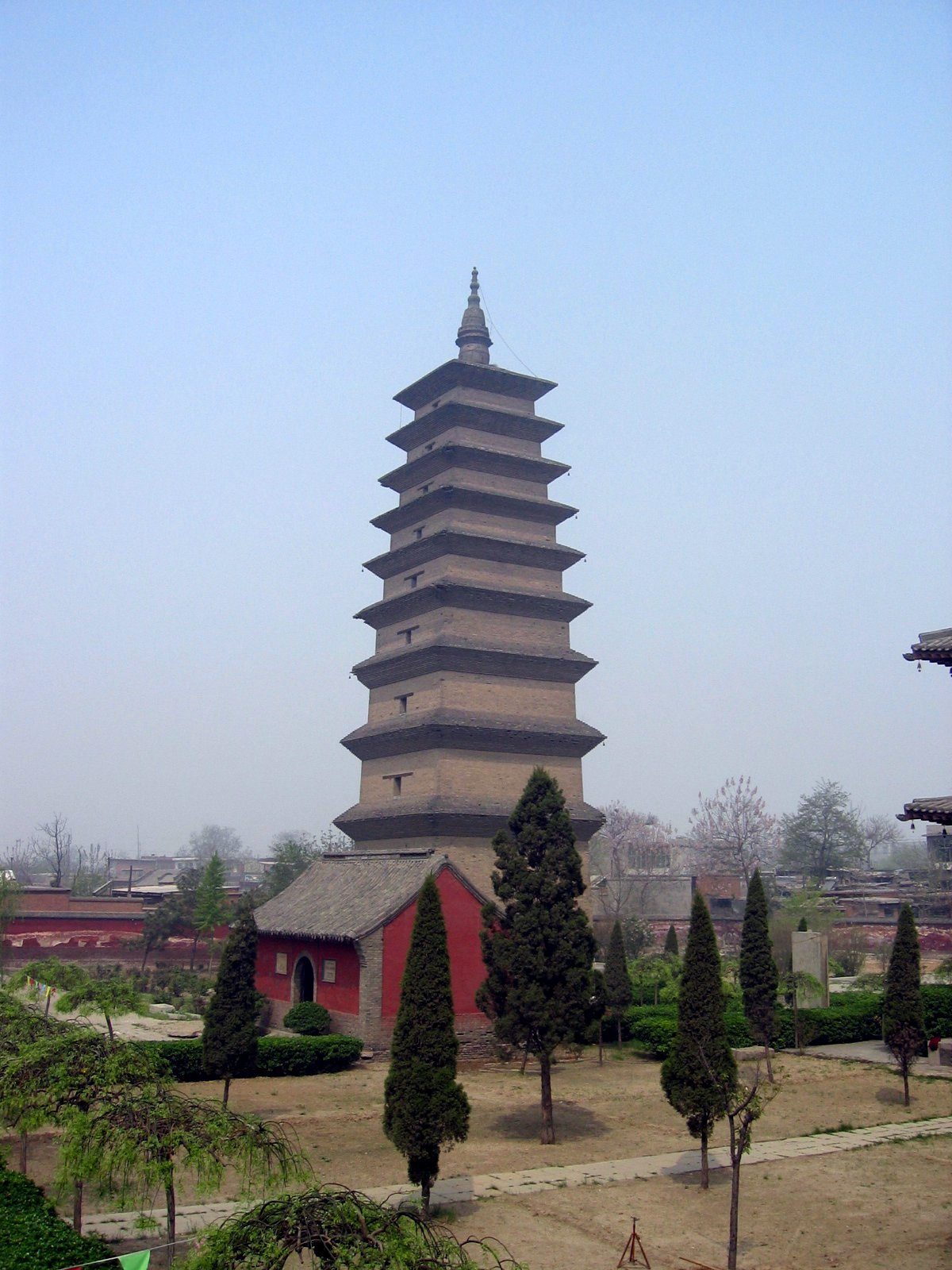 Photograph of the Xumi Pagoda, Zhengding, Hebei Province, China. The pagoda was built in 636 AD during the Tang Dynasty, and stands at a height of 48 m (157 ft). Photograph taken on April 18, 2005 by Rolf Müller.